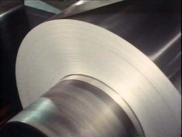 A coil of cold-rolled steel